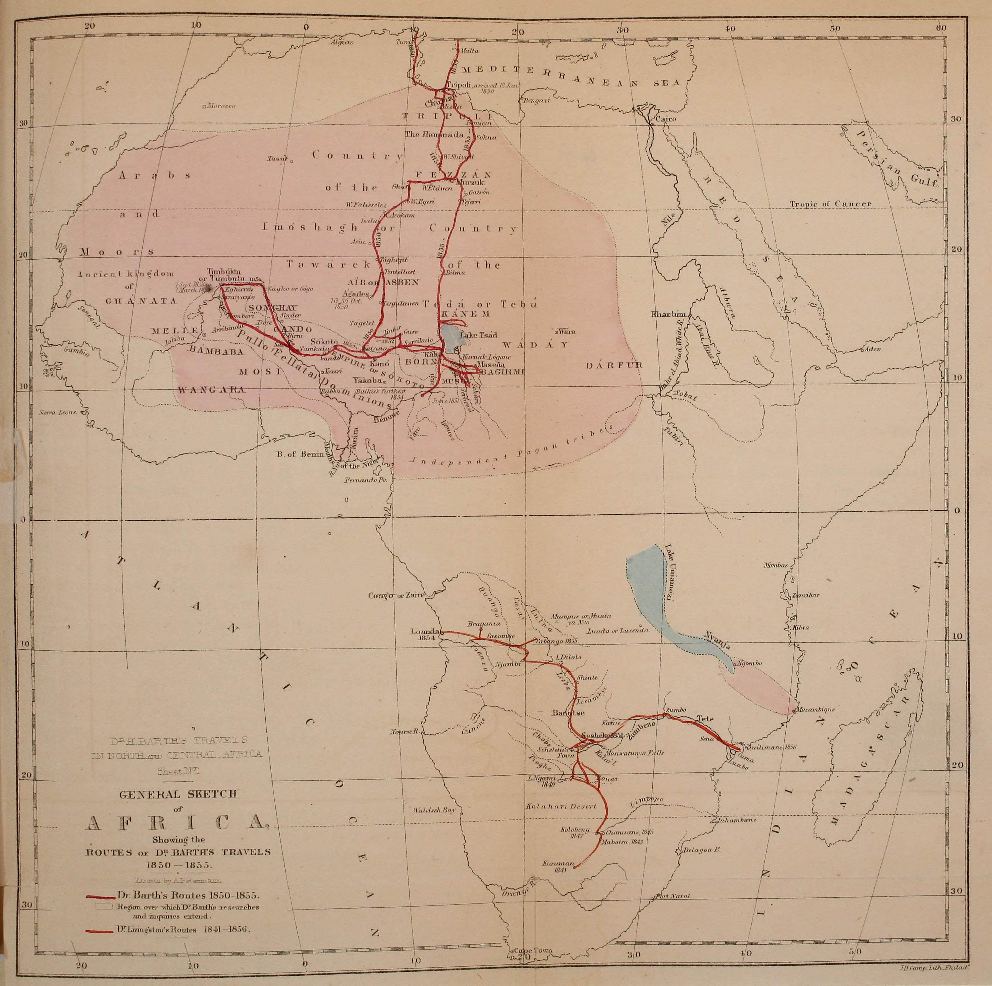 Route of explorer Heinrich Barth across Africa between 1850 and 1855. See also File:Heinrich Barth's route through Africa, 1850 to 1855, with routes of previous explorers.jpg which also plots the routes of previous explorers